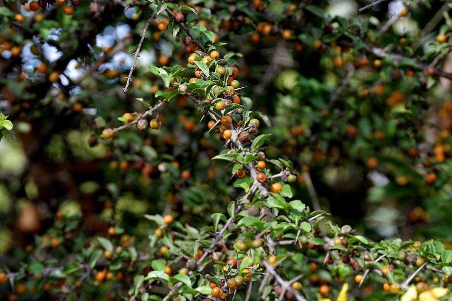 Canthium coromandelicum (syn. C. parviflorum, Plectronia parviflora, Paederia valli-kara, Webera tetrandra)- Coromandel Canthium • Marathi: किरमा Kirma, Kadbar • Tamil: Nallakkarai, Kudiram, Sengarai • Malayalam: Kantankara, Niruri, Serukara • Telugu: Sinnabalusu, Balusu • Kannada: Karemullu, Ollepode • Oriya: Tutidi • Konkani: Kayili • Sanskrit: Nagabala, Gangeruki - at Deer Park in Shamirpet, Rangareddy district, Andhra Pradesh, India.